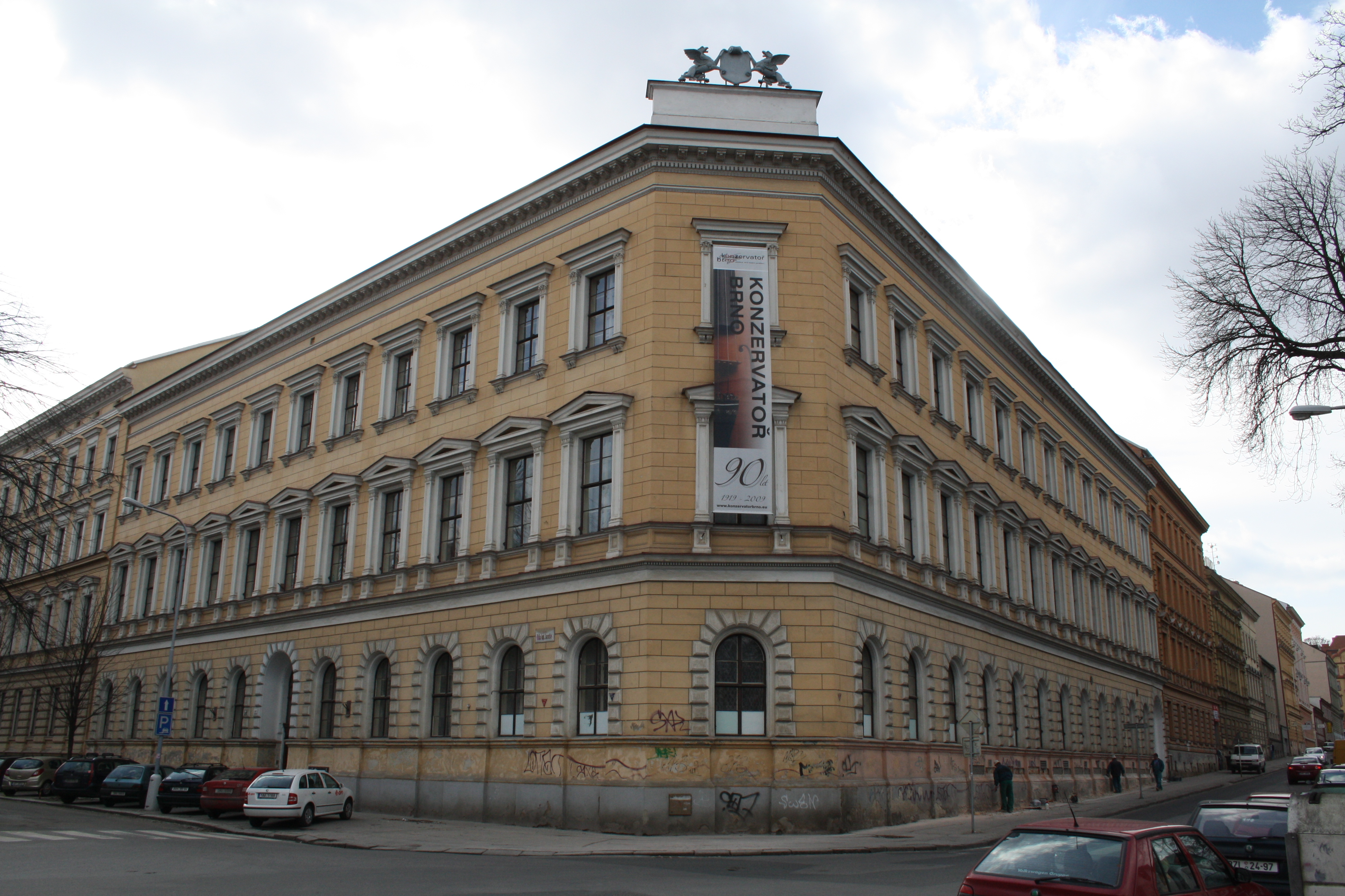 Building of Conservatory in Brno, třída Kapitána Jaroše Street.